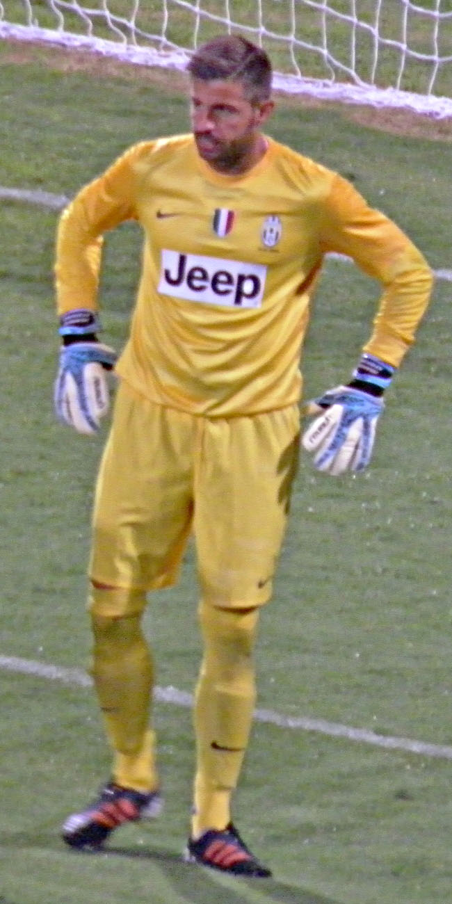 Italian footballer Marco Storari during the friendly match Juventus-Málaga played in Salerno in the summer of 2012.